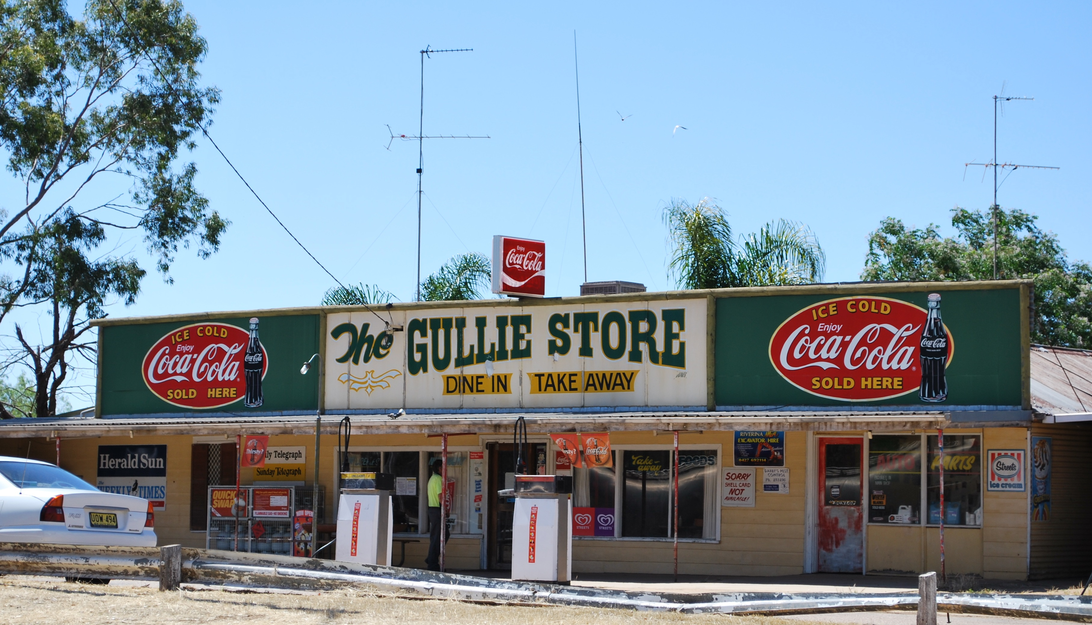 The "Gullie Store", the general store at Collingullie, New South Wales